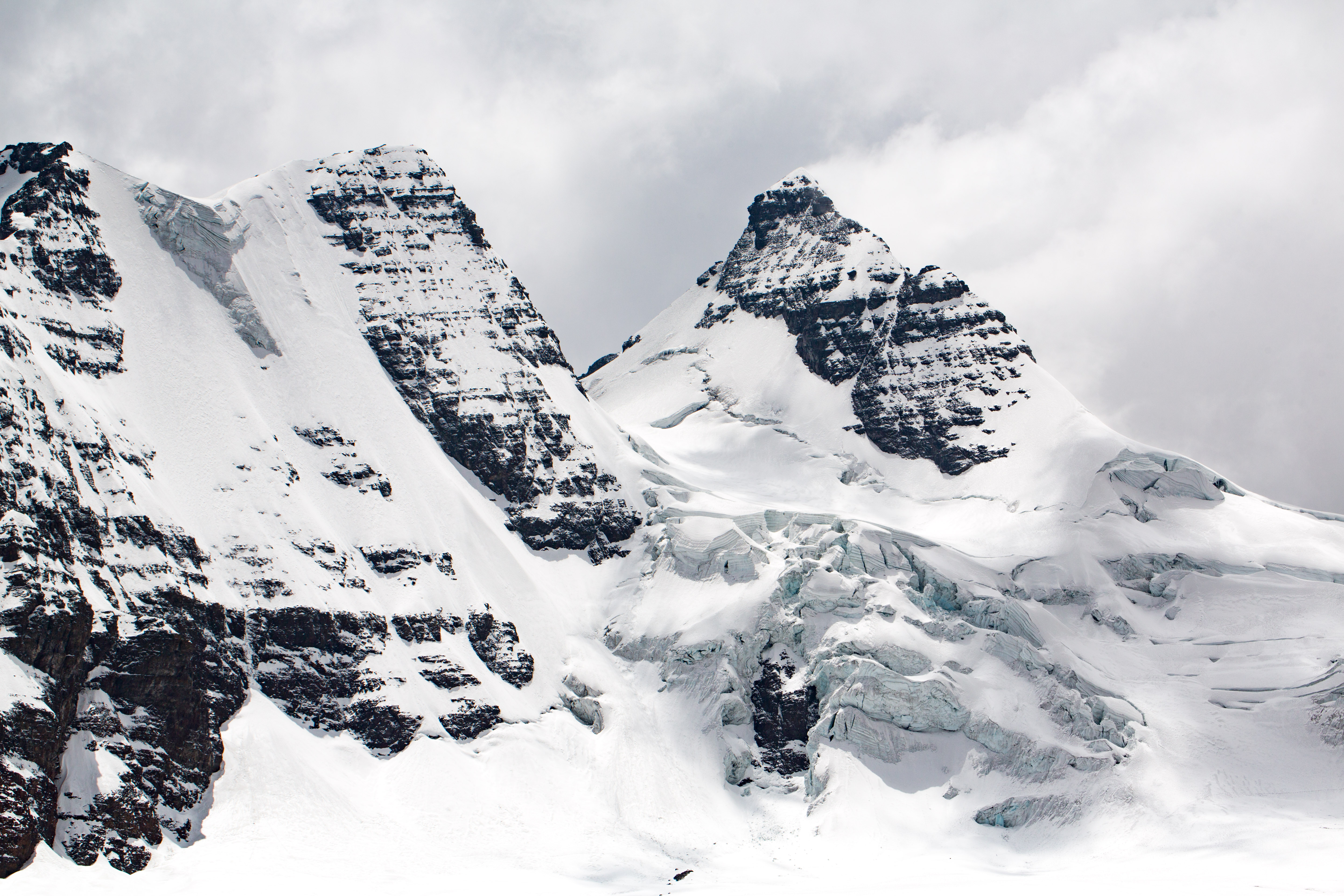 El condoriri seen from the side on the way up to Pico Austria, Cordillera Real, Bolivia